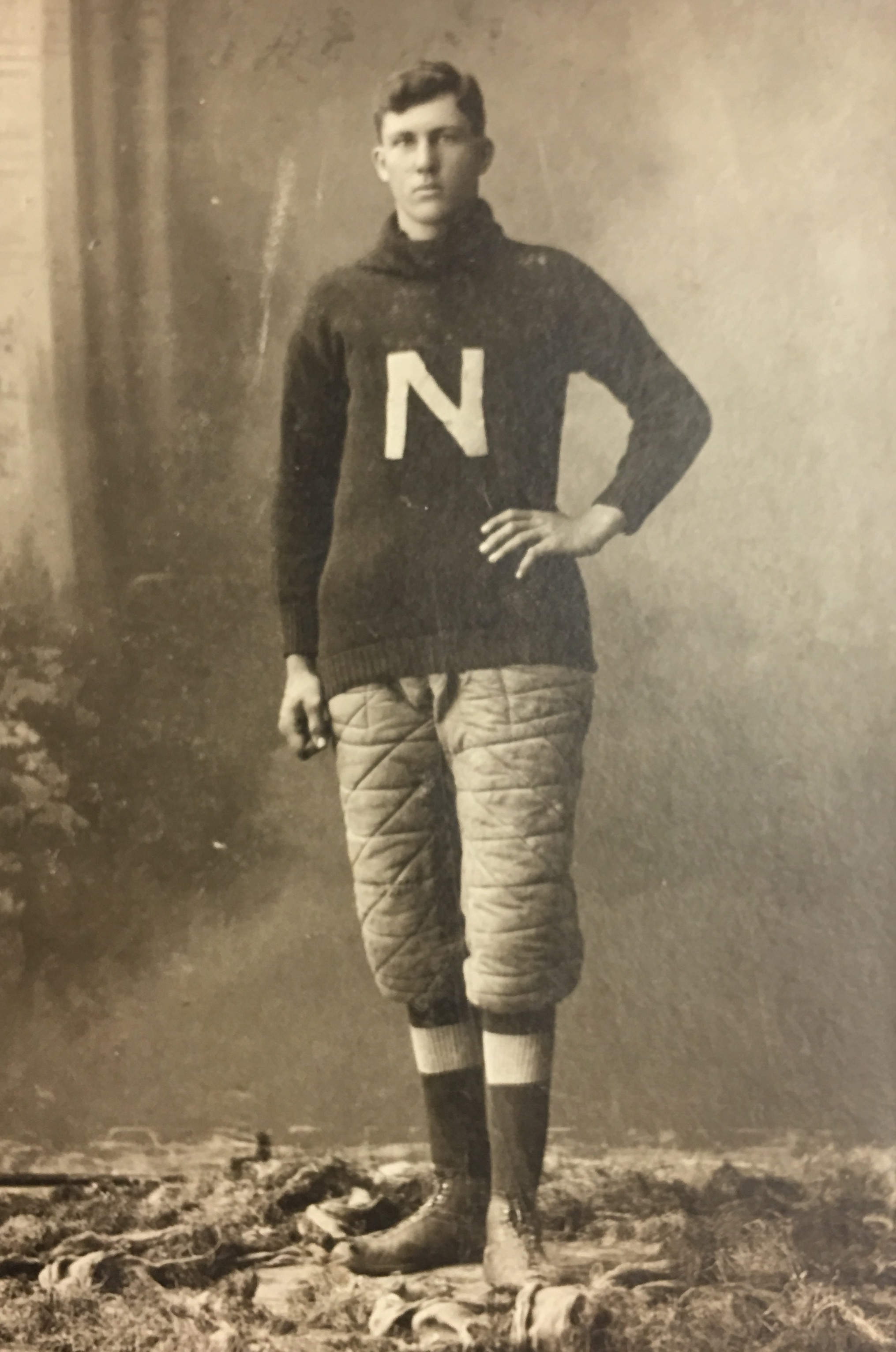 Photograph of William Melford